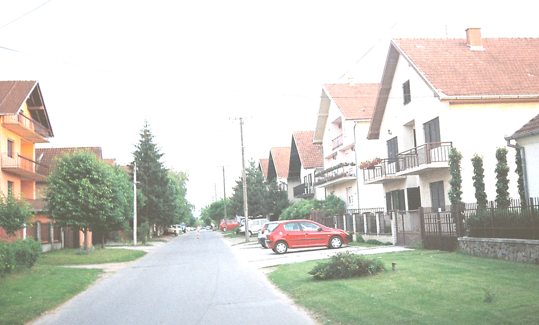 Street Bože Kuzmanovića in Klisa neighborhood in Novi Sad.